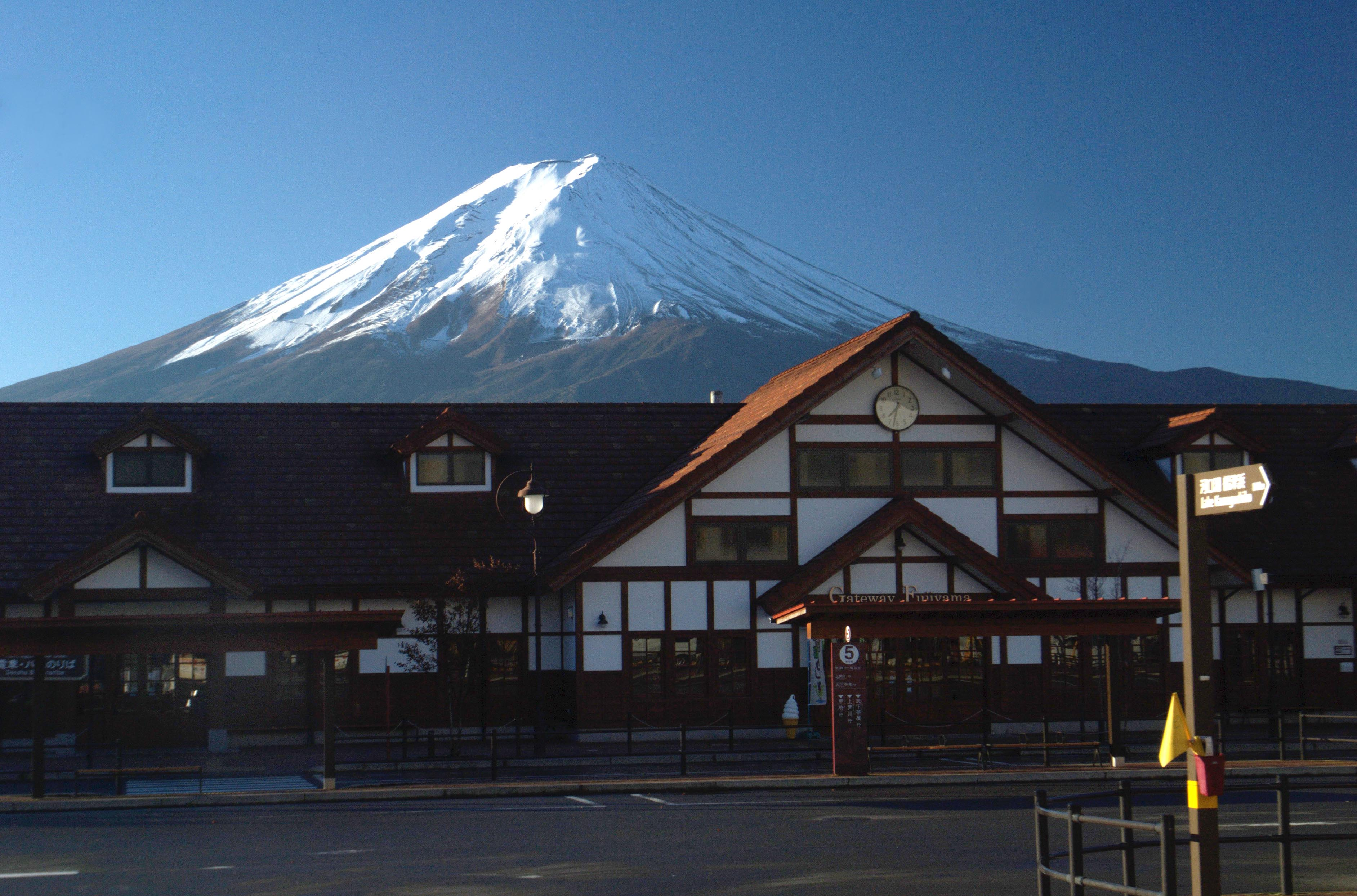 Kawaguchiko Station and Mount Fuji.